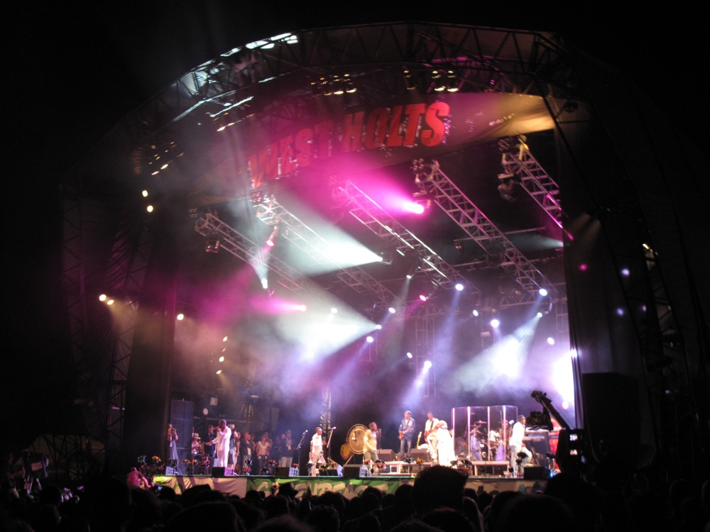 Kool & the Gang headline West Holts.